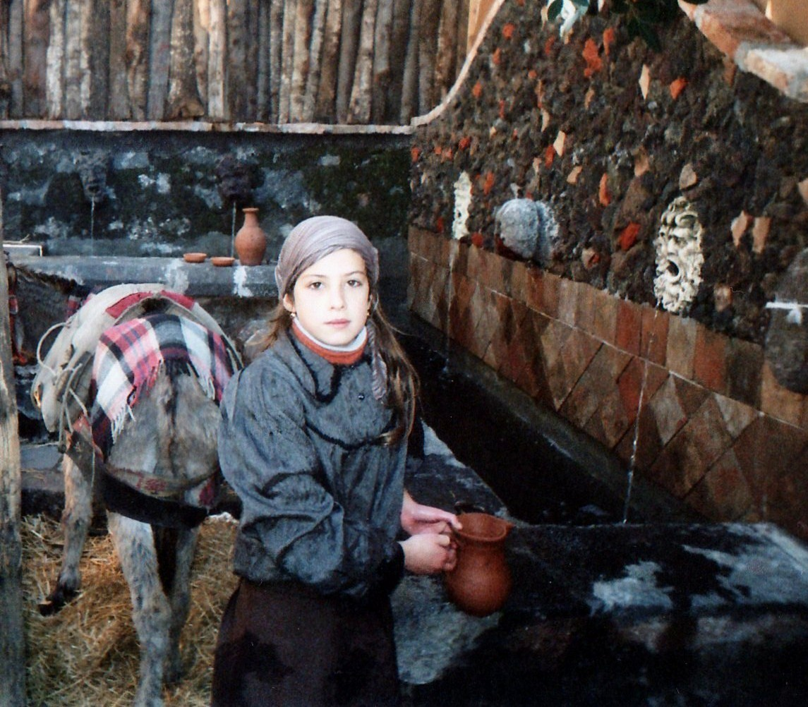 A young Sicilian artisan preparing the set for a living Nativity scene in Santa Maria La Stella, Sicily